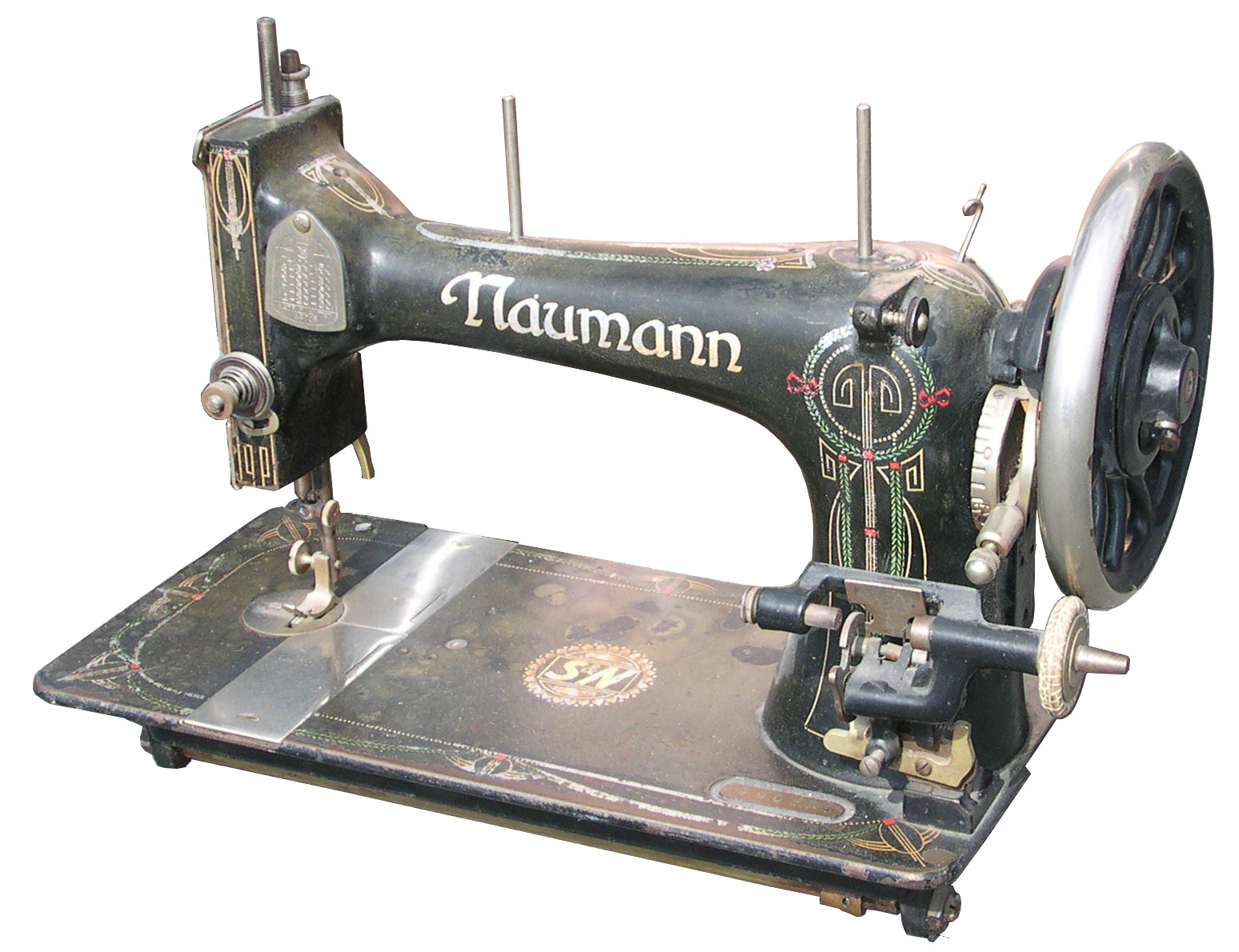 Seidel und Naumann